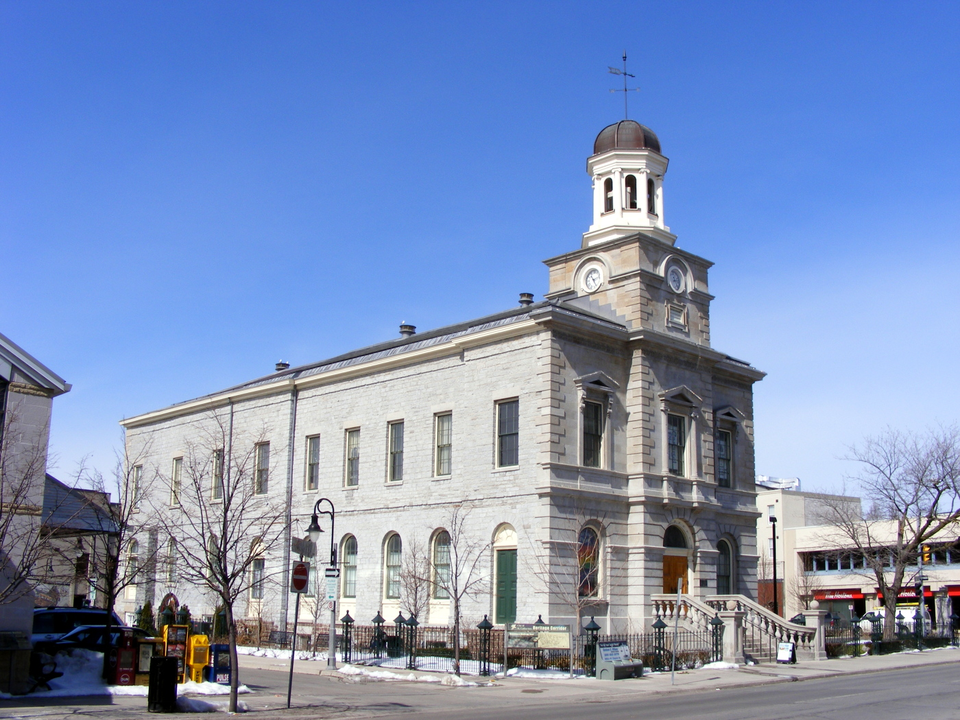 Old Courthouse in downtown St. Catharines, Ontario. Date: March 17, 2008 Source: Photo by me, User:Balcer.